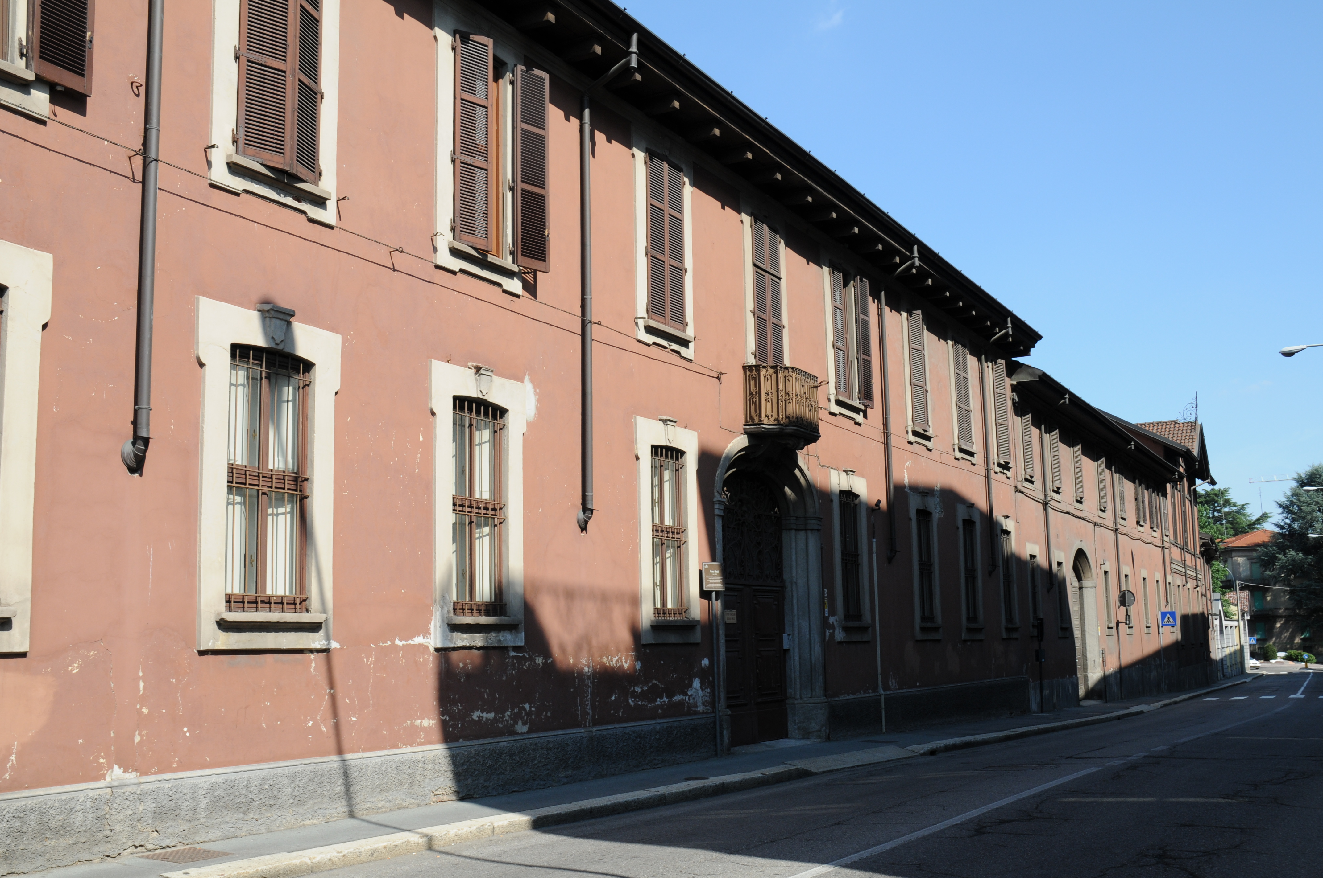 Barbara Melzi Institute in Legnano (Italy)